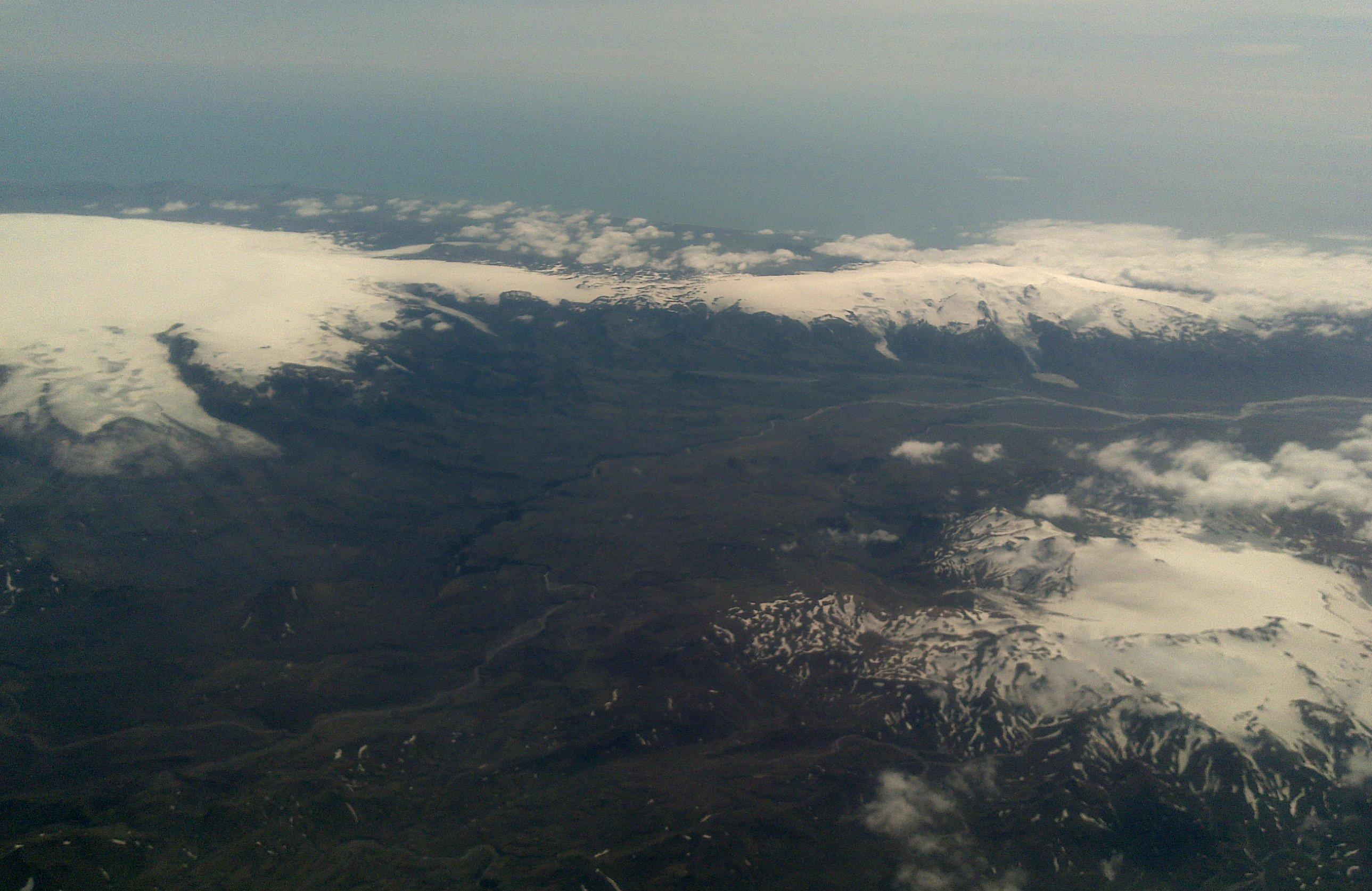 Eyjafjallajökull, southern Iceland, is in the right-center background, with Mýrdalsjökull left, and Tindfjallajökull in the lower right of the picture.